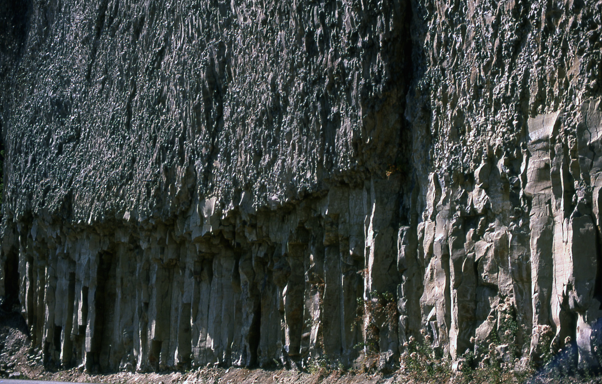 Basalt columns of Overhanging Cliff, Yellowstone National Park, 1976